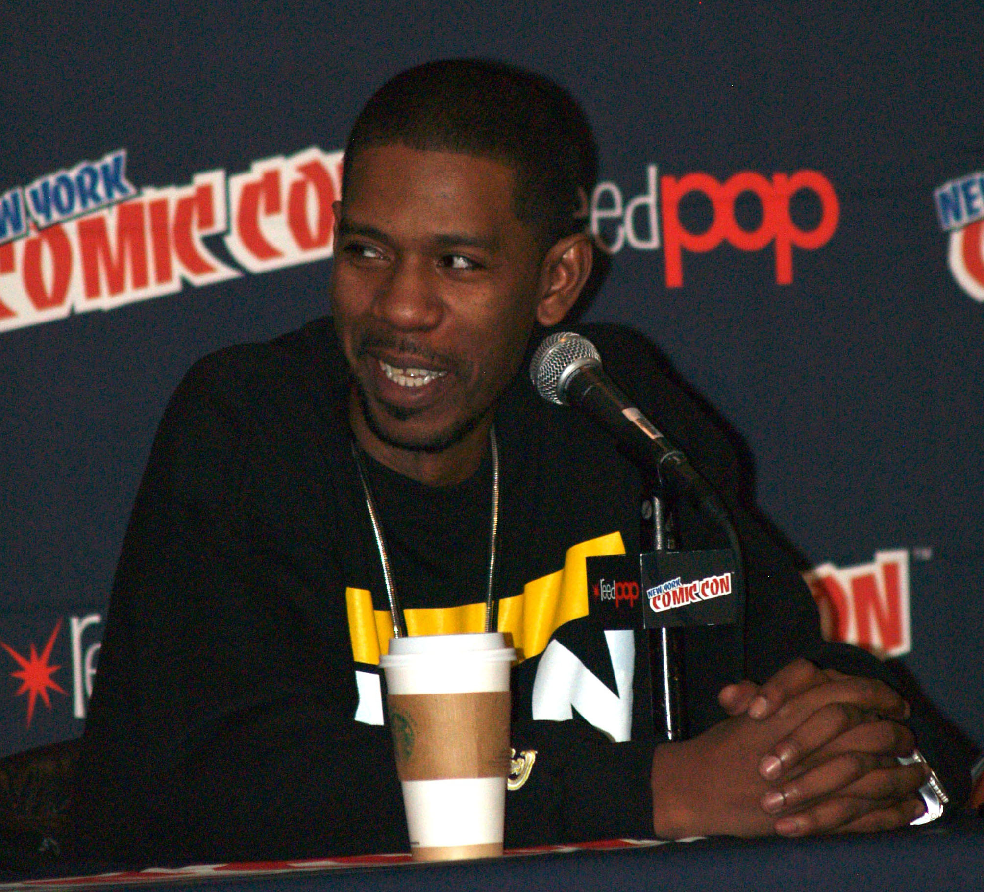 Grammy-winning music producer and DJ Young Guru during a panel discussion on hip hop and comics on Sunday, October 12, 2014, at the Jacob K. Javits Convention Center in Manhattan, Day 4 of the 2014 New York Comic Con. This photo was created by Luigi Novi. It is not in the public domain, and use of this file outside of the licensing terms is a copyright violation.